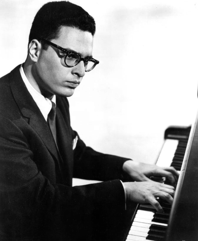 Publicity photo of Leon Fleisher.